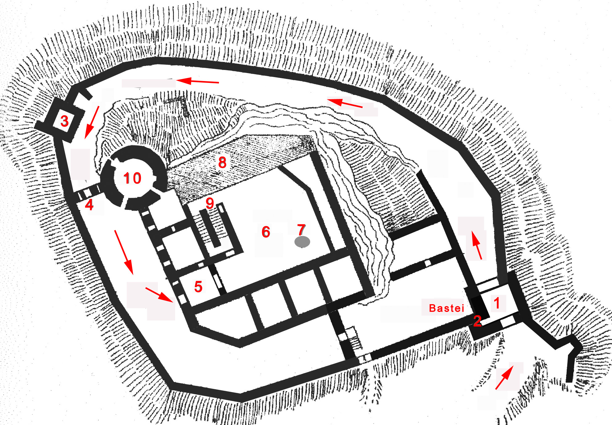 Modified ground-plan